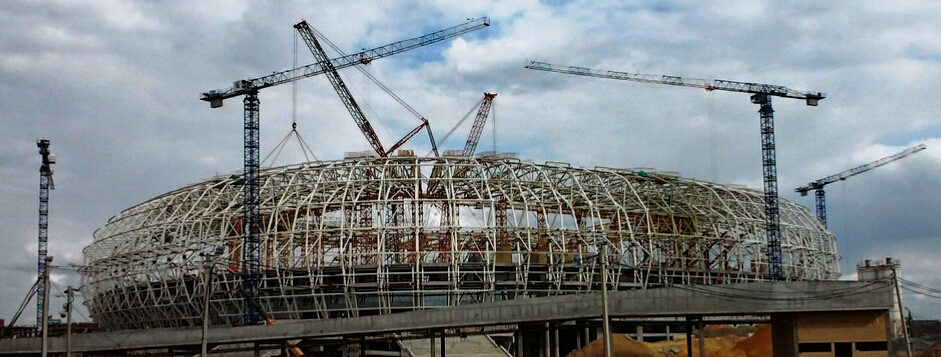 Stadium named Mordovia Arena in Saransk which is under construction, for world soccer champ in Russia in 2018